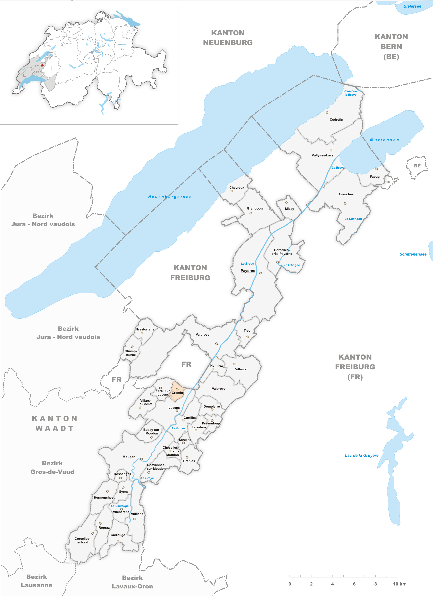 Municipality Cremin